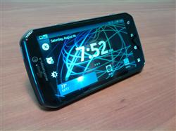 Small photo of the Motorola Photon